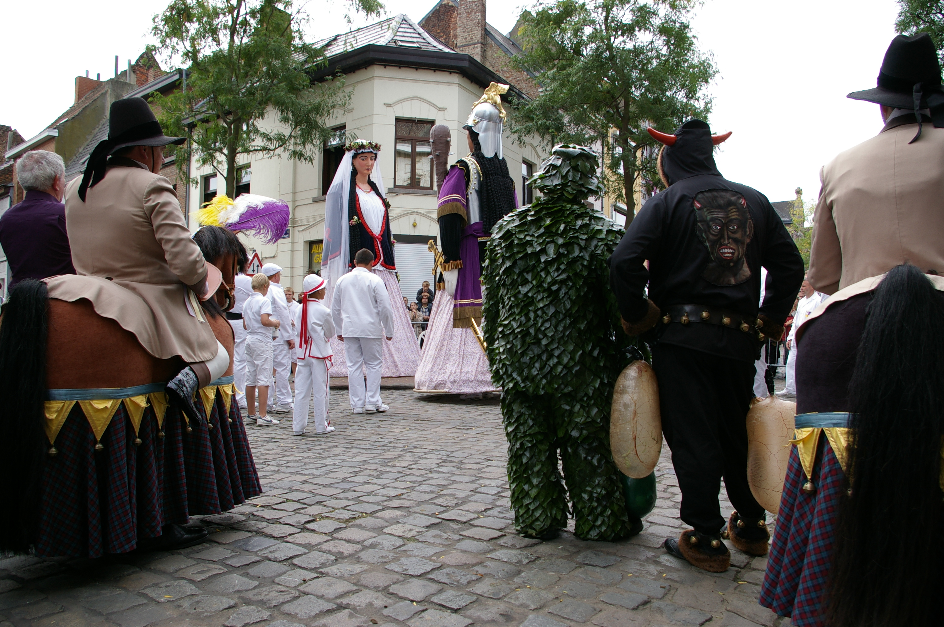 Groupe de Goliath. Ducasse d'Ath 2008